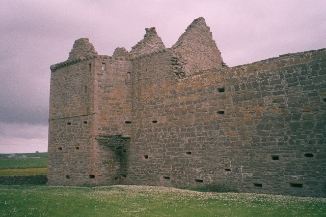 Noltland Castle, Westray